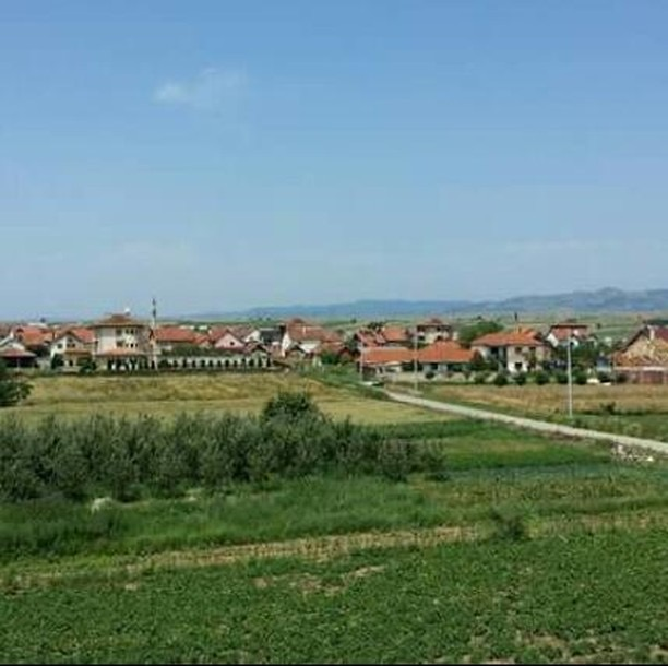 Village pic